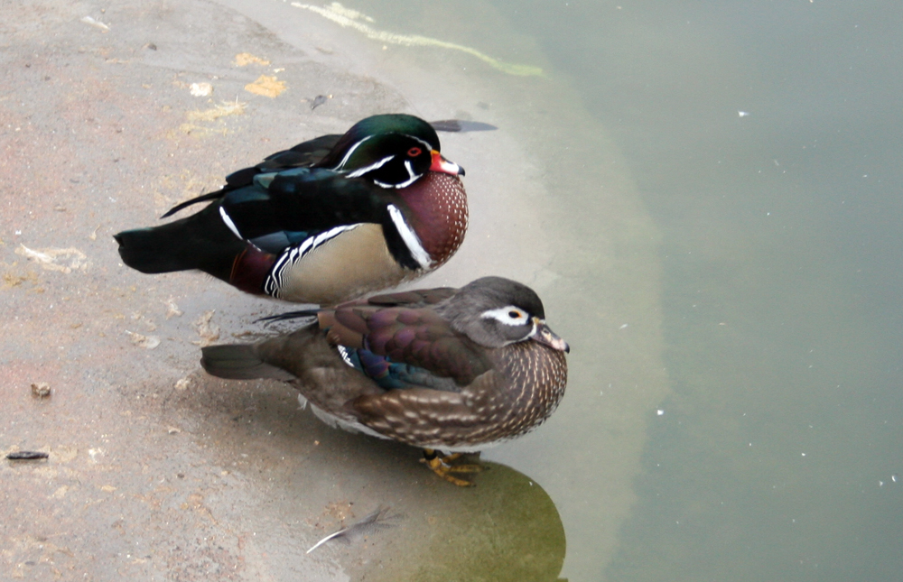 Aix sponsa, wood duck / canard carolin, parc animalier de Gramat (Lot) / Gramat animal parc (Lot, France)